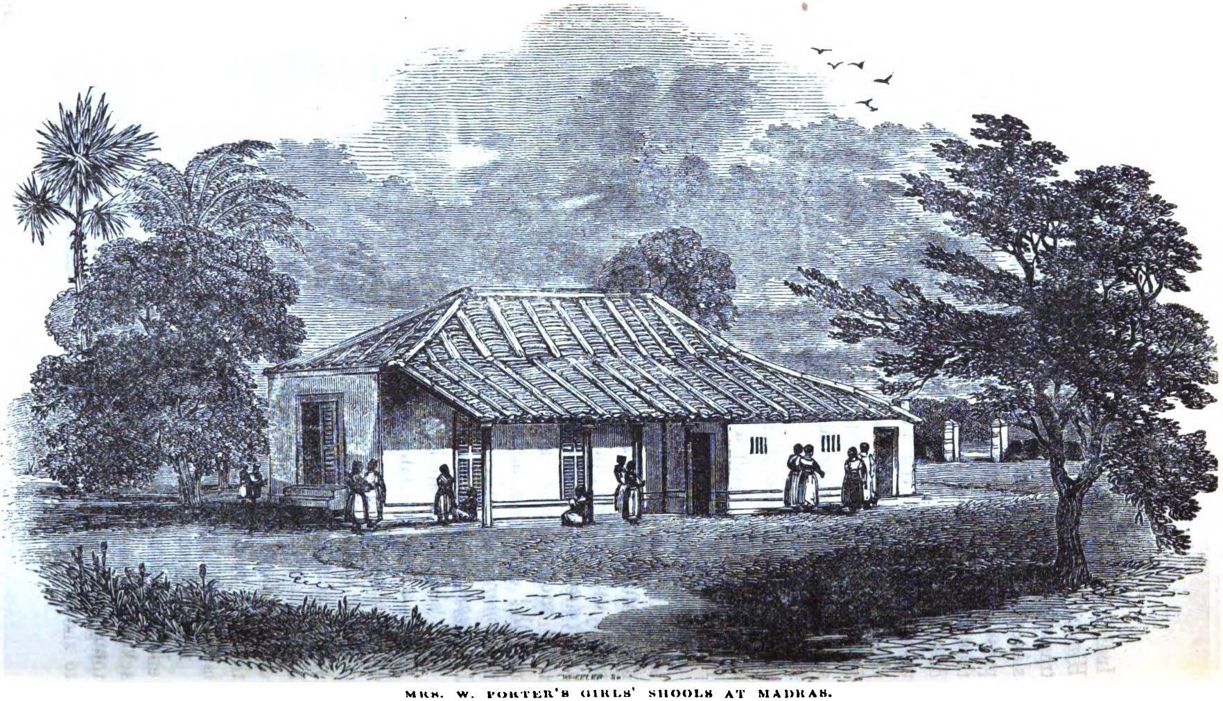 Mrs. W. Porter's Girls' Shools at Madras (Bentinck Higher Secondary School, Vepery), (87, 1847)